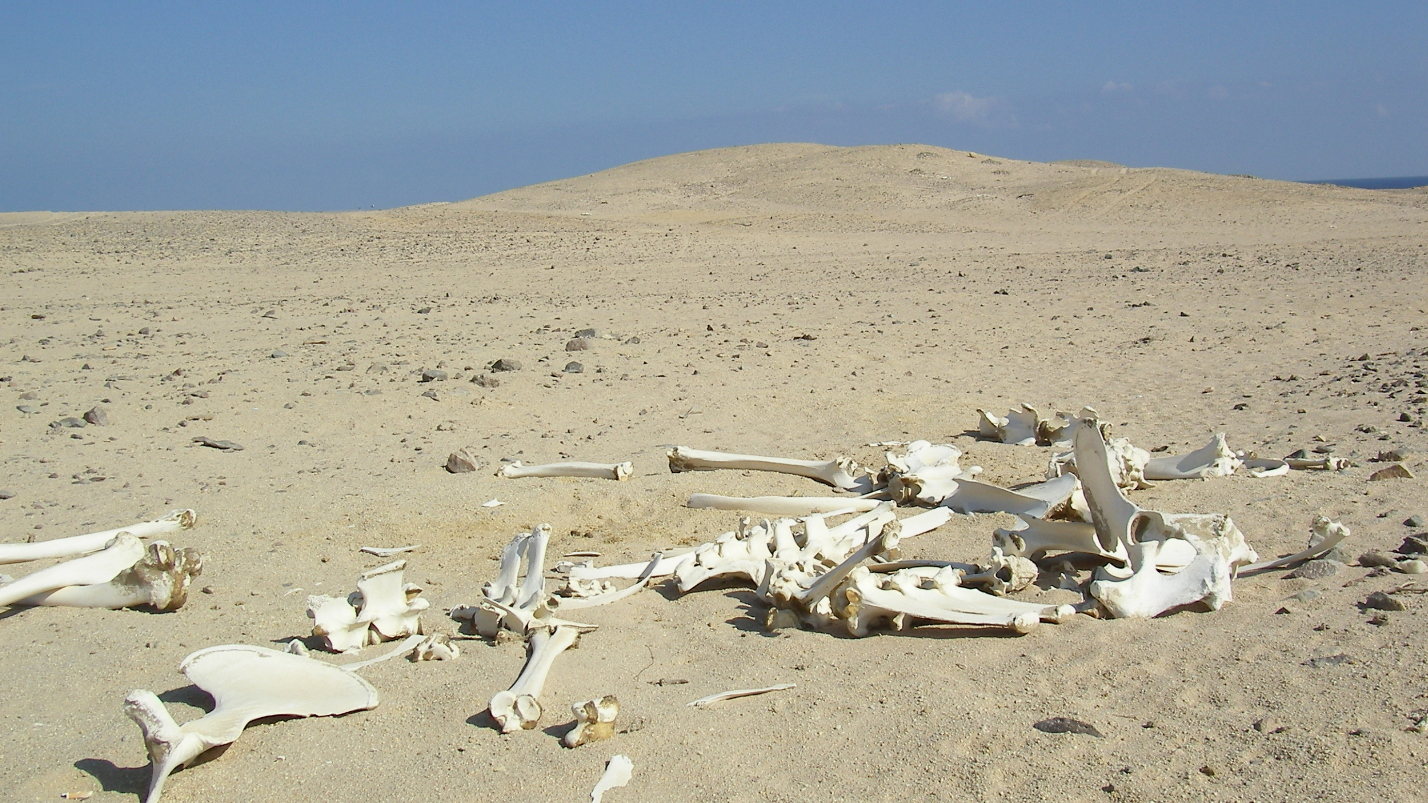 Skeleton found in the desert at Hurghada in Egypt